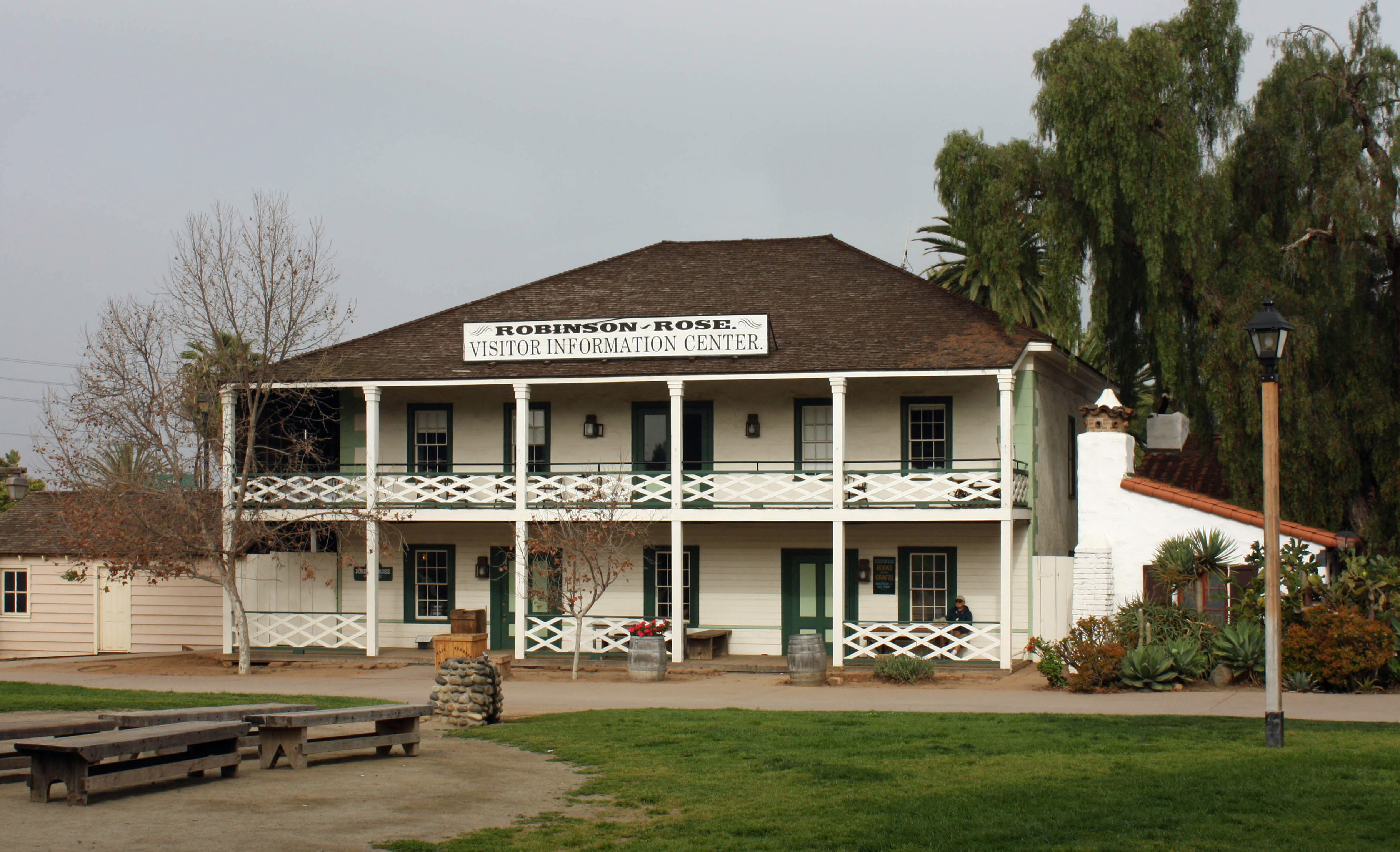 Robinson-Rose House (1853) in Old Town San Diego State Historic Park, San Diego, California